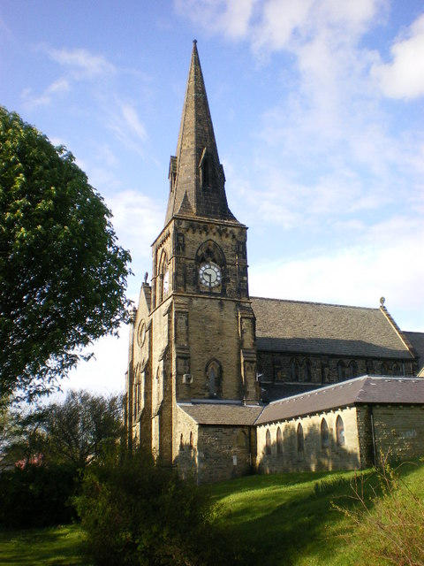 St Mary's Church, Wyke, near to Wyke, Kirklees, Great Britain.